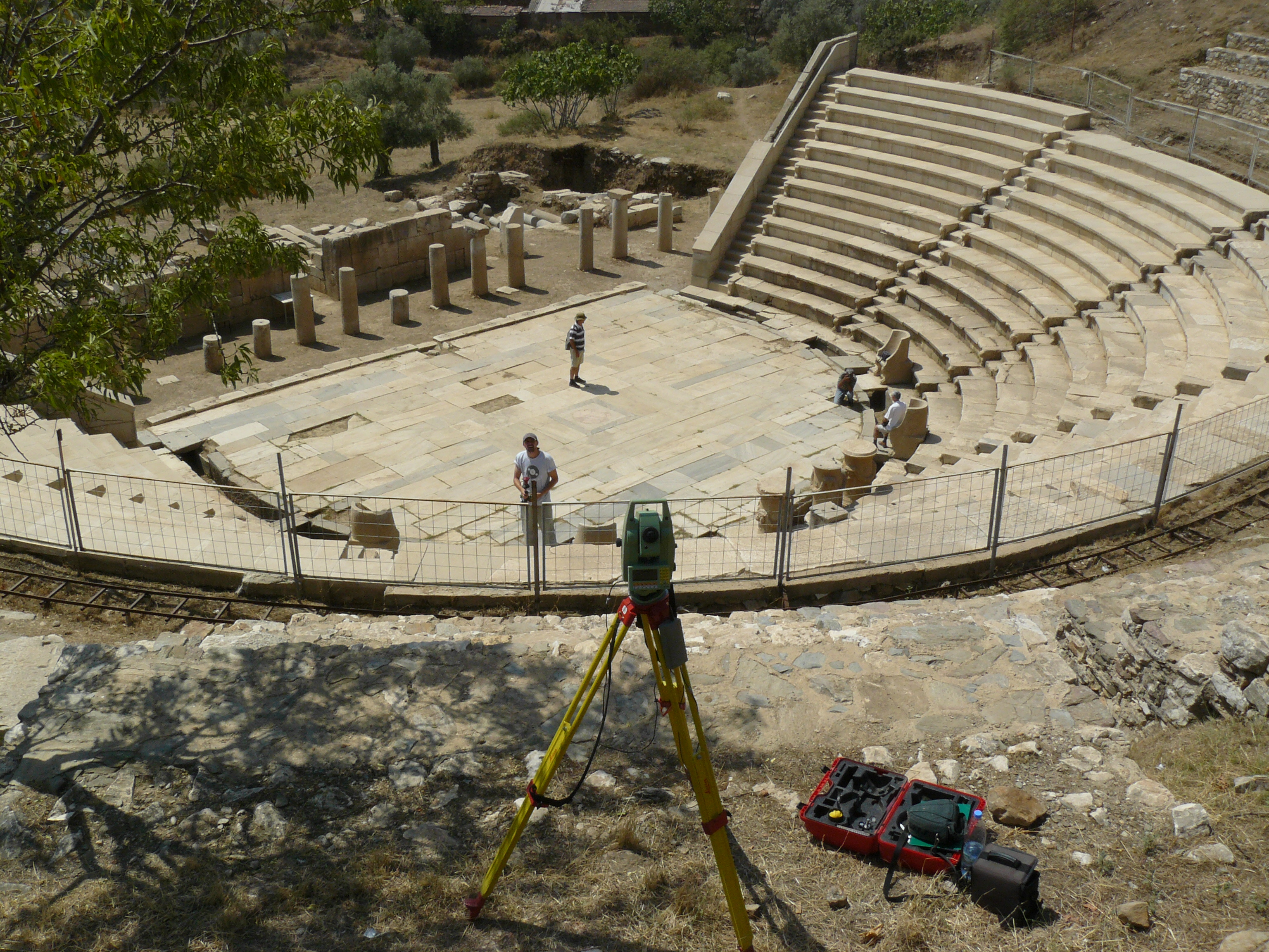 Roman theatre at Metropolis 2007